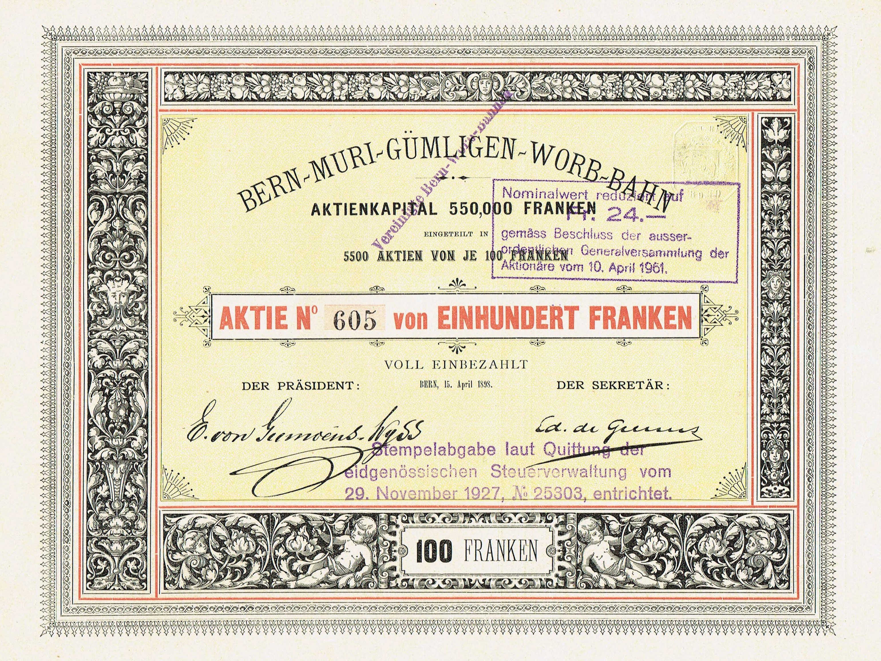 Share of the Bern-Muri-Gümligen-Worb-Bahn, issued 15. April 1898